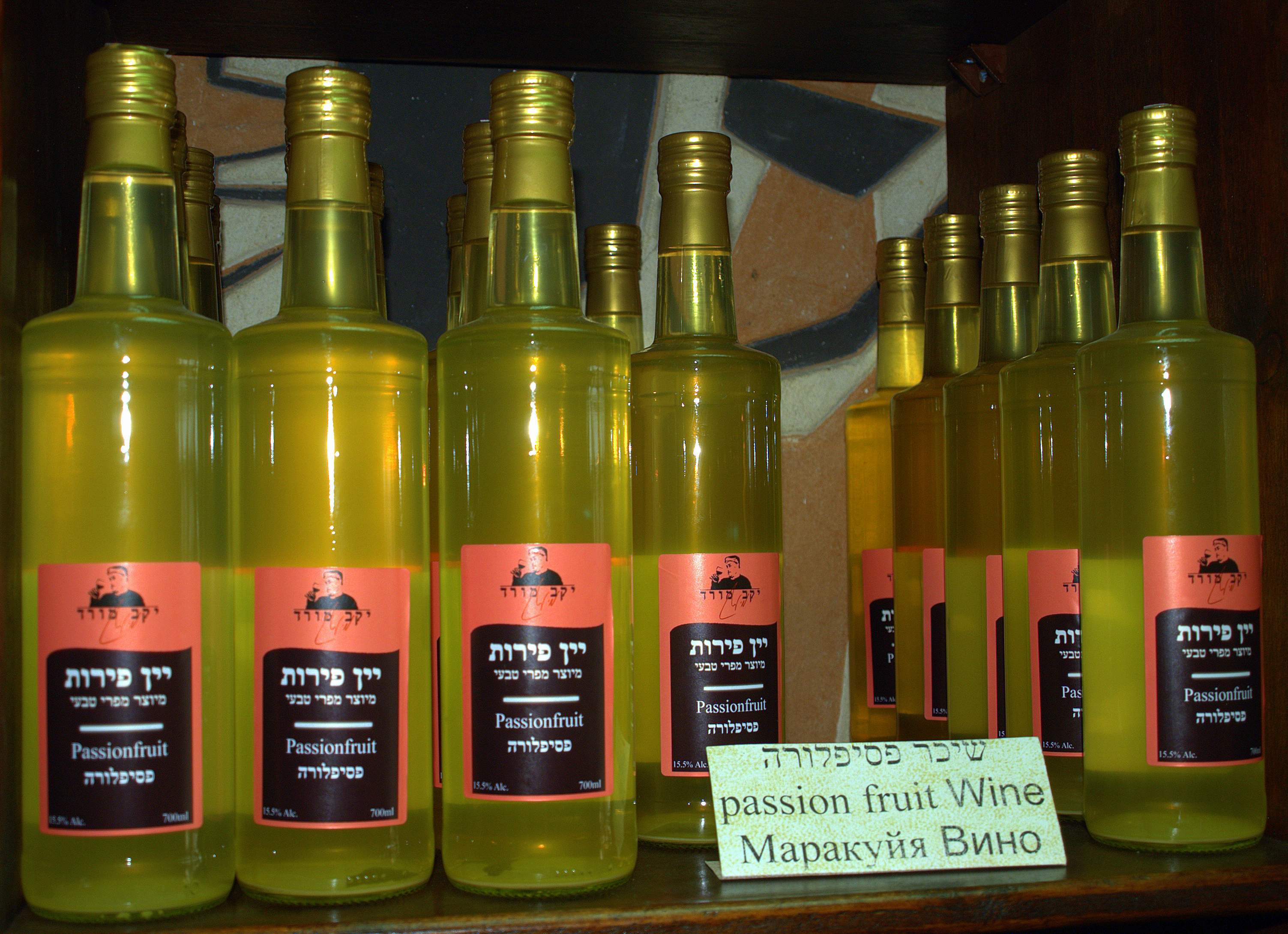 Wine, or "shechar" (שיכר), made out of passion fruit produced at Morad Winery in Israel.